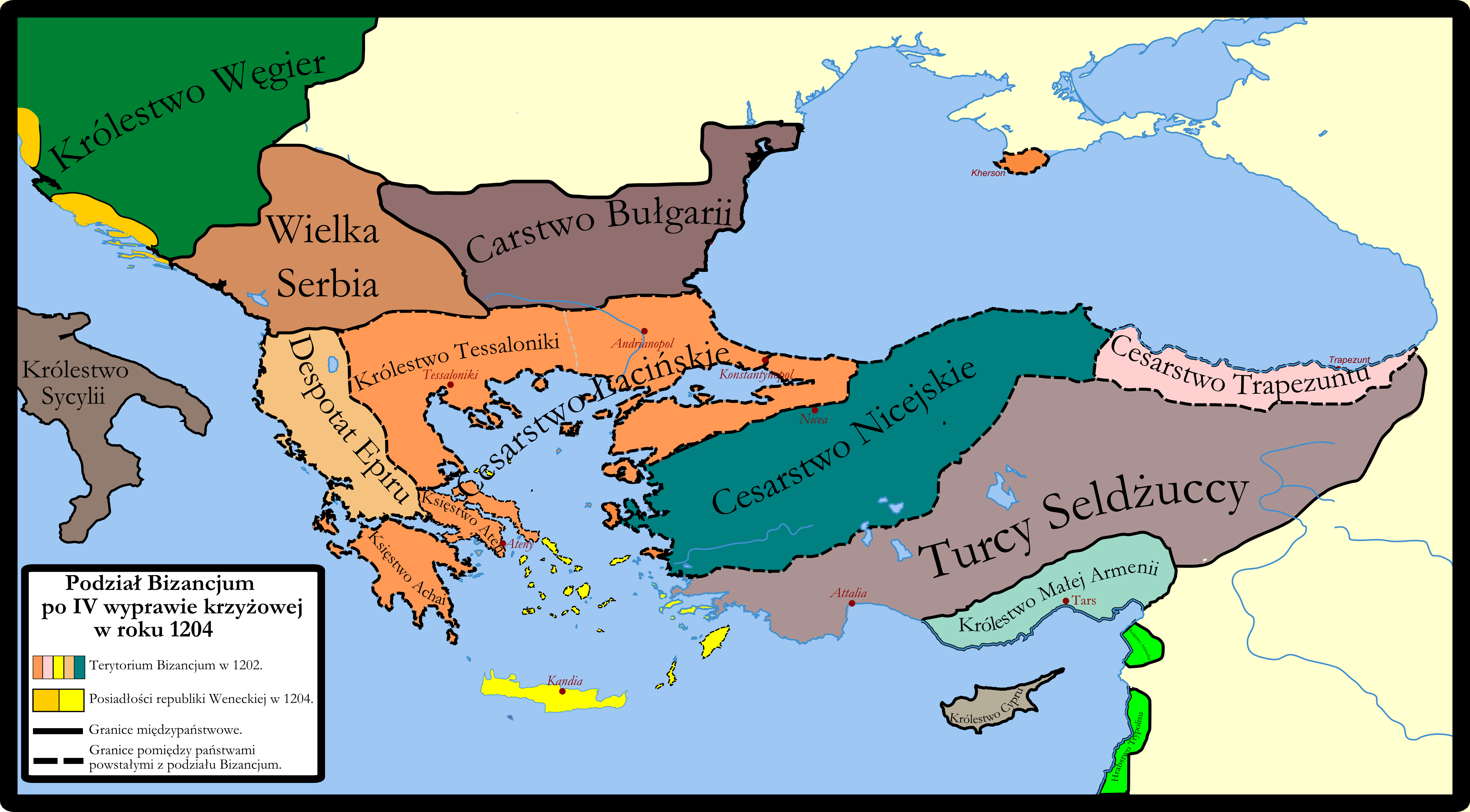 Asia Minor (especially Latin Empire) in XIII century